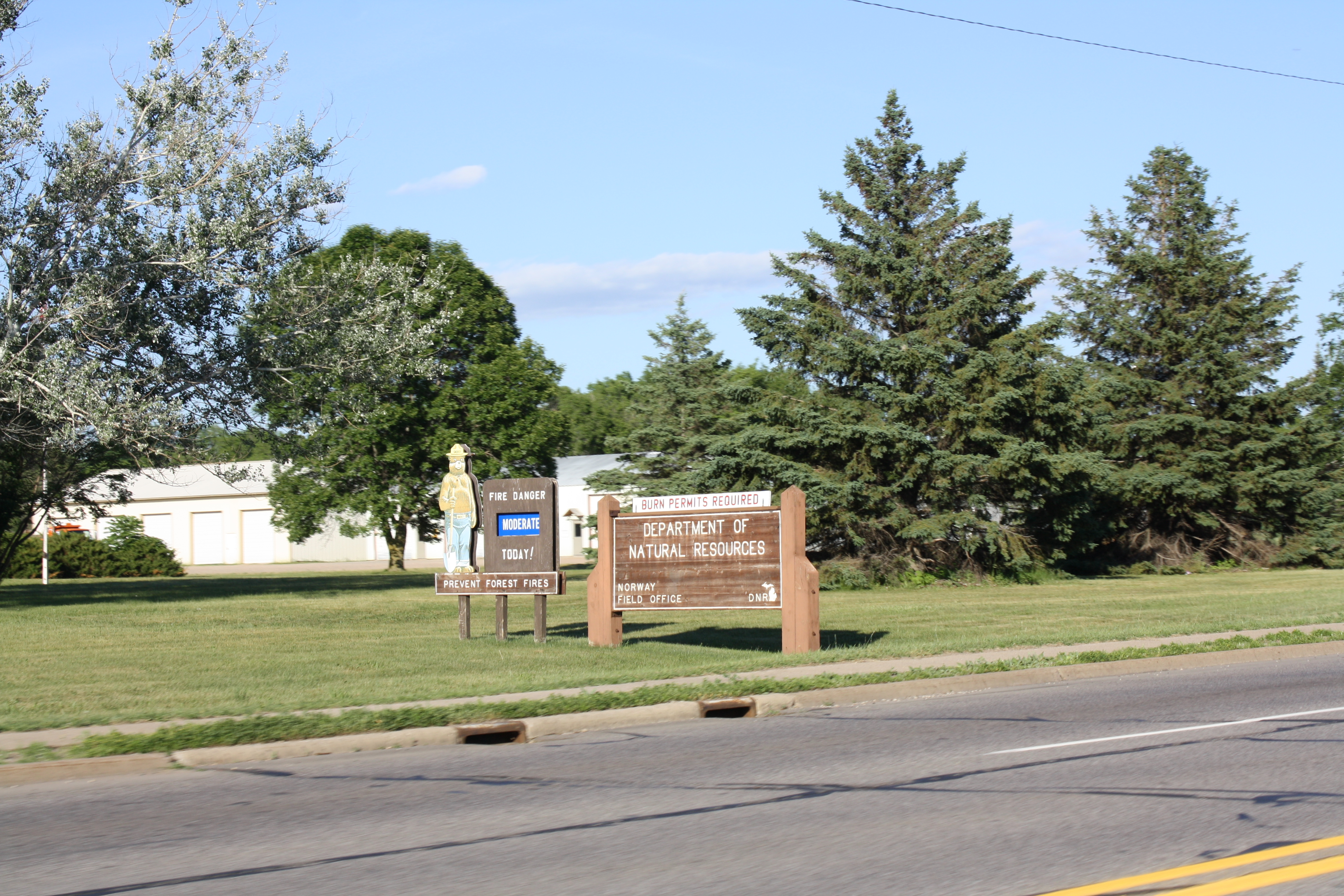 The Michigan Department of Natural Resources location at Norway, Michigan along U.S. Route 2.